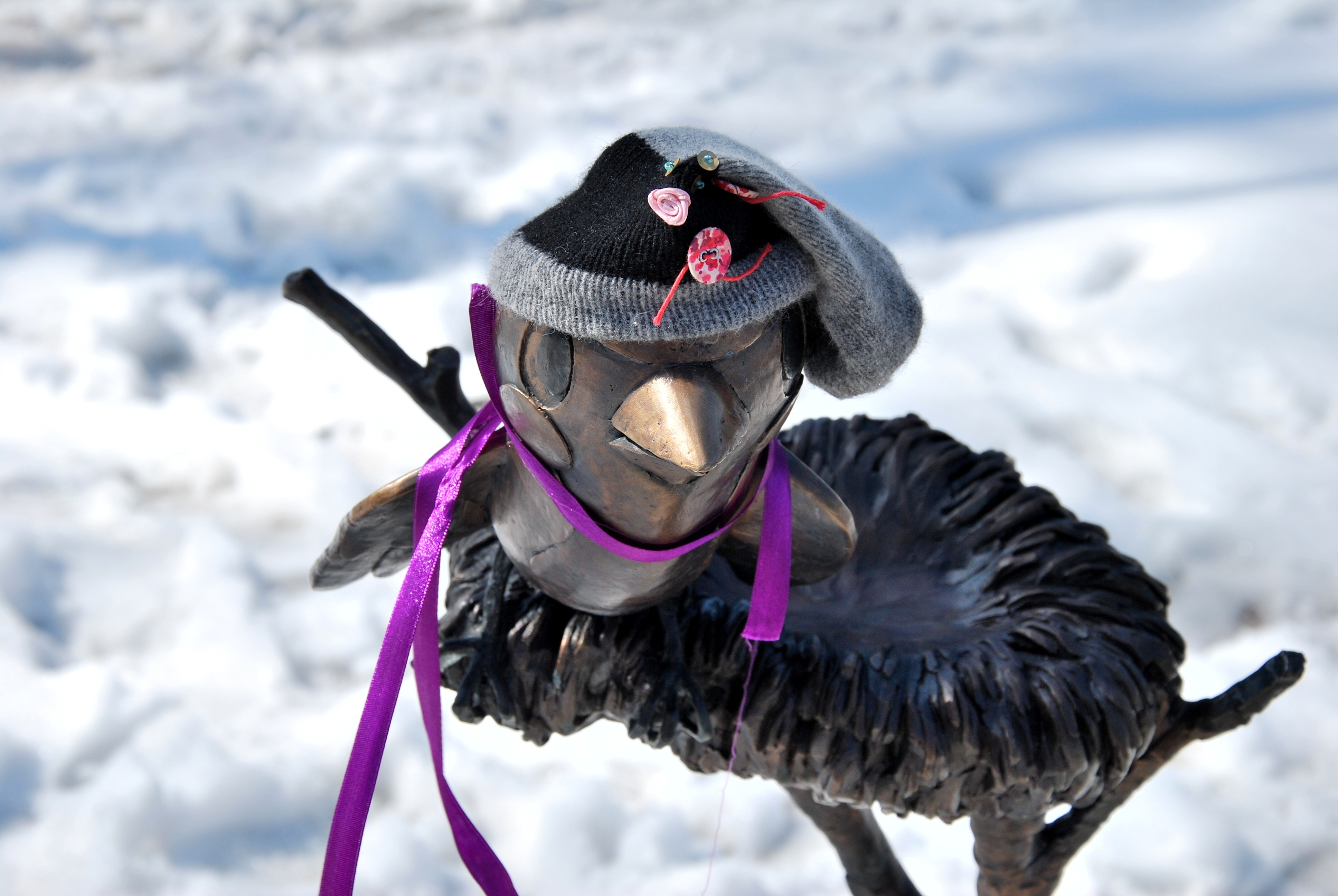 Ćwirek Sparrow sculpture with cap, Łódź Źródliska Park